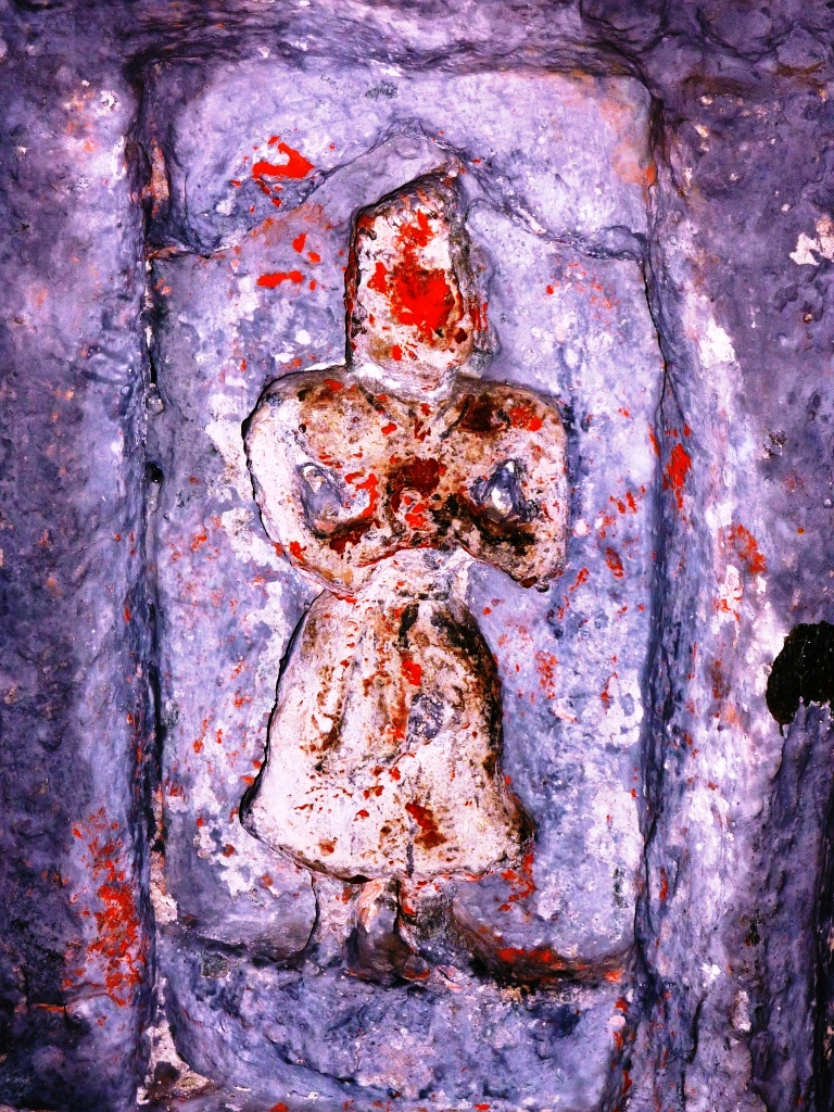 I took this photo in Bhimakali temple, Sarahan, Himachal Pradesh in 2010.